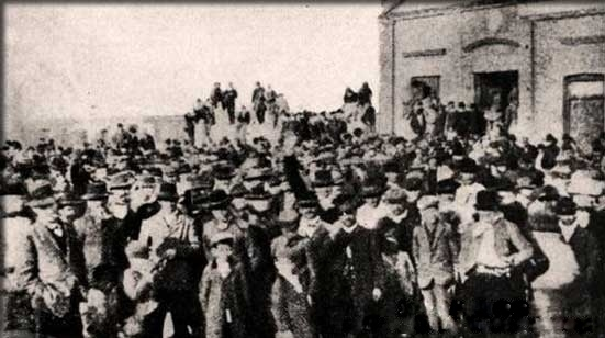 Grito de Alcorta (1912, prov. de Santa Fe, Argentina). Reunión de chacareros 25 de junio de 1912.